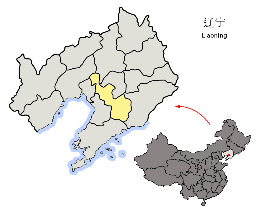 Location of Anshan Prefecture (yellow) within Liaoning Province of China Map drawn in november 2007 using various sources, mainly : Liaoning Province administrative regions GIS data: 1:1M, County level, 1990 Liaoning Counties map from